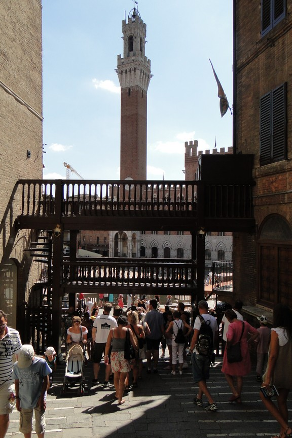 The tower of Palazzo Pubblico